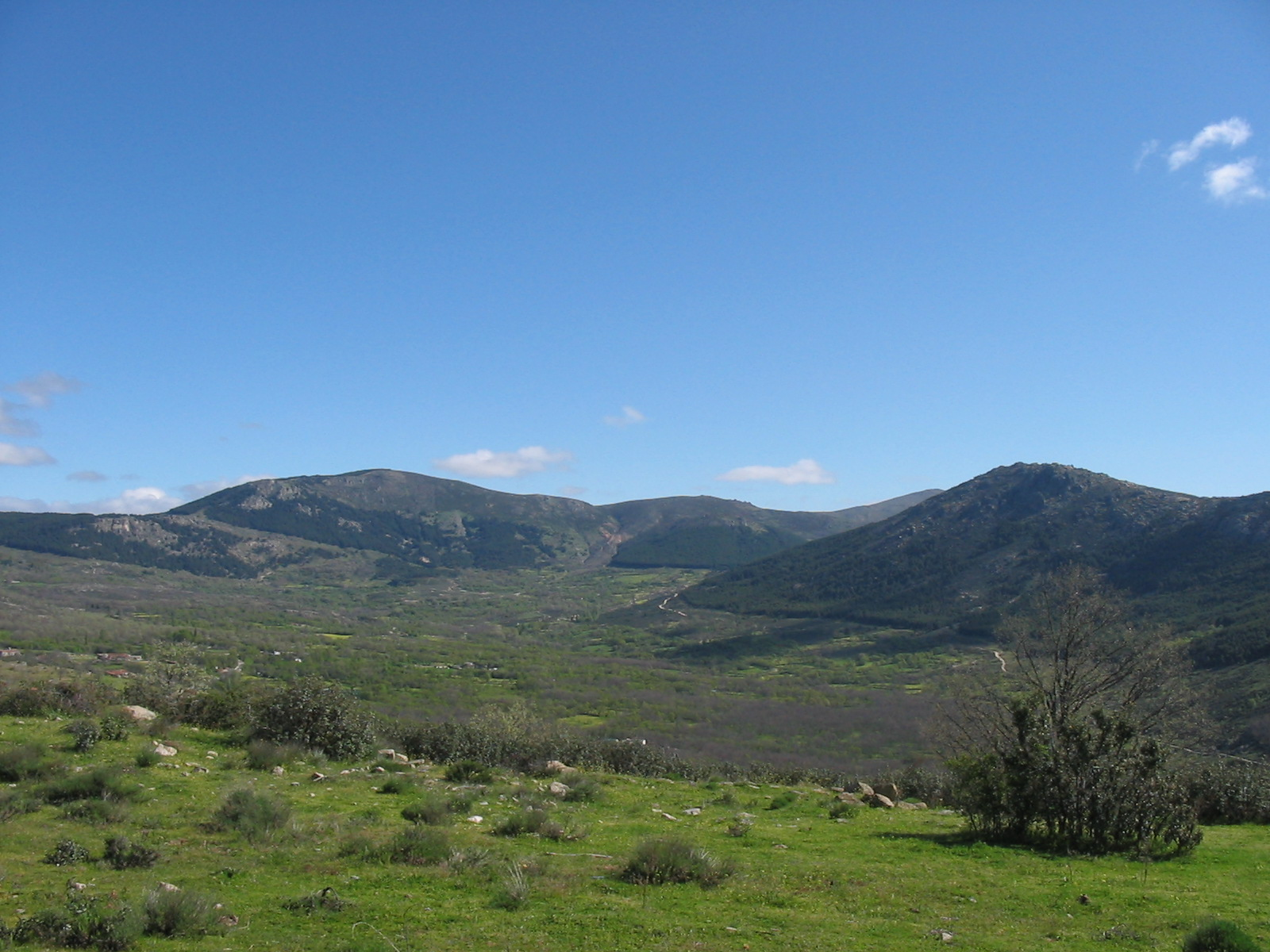 Valley of Bustarviejo(Madrid)